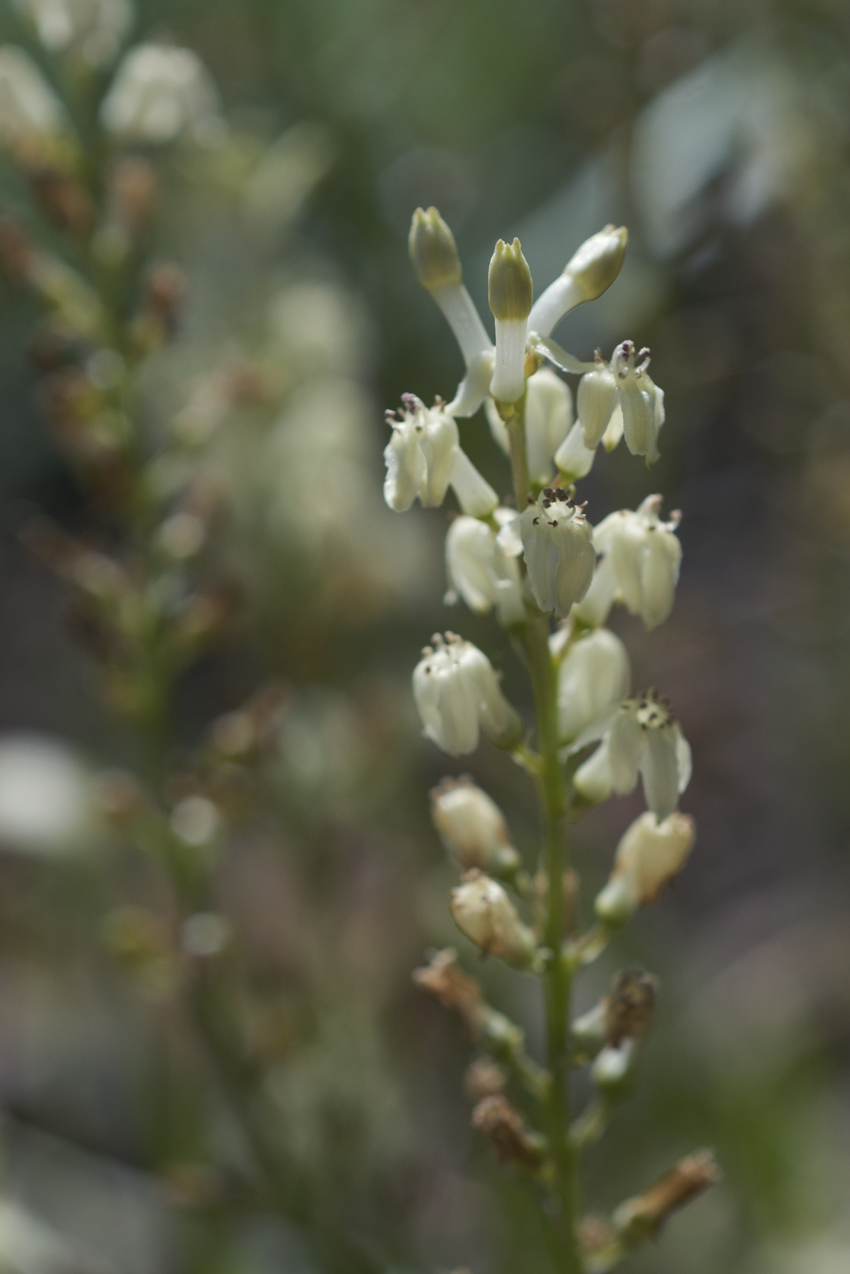 Odontostomum hartwegii - a Species from California Photographed at Tilden Regional Park Botanic Garden